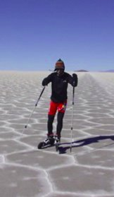 Nordic cross skating. Modified from File:Crossing salar rollerskiing.jpg